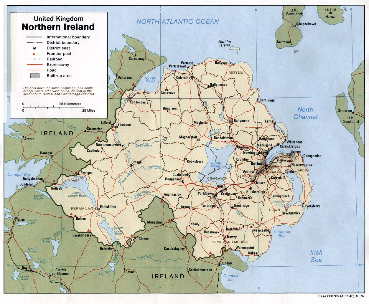 Map of Northern Ireland.